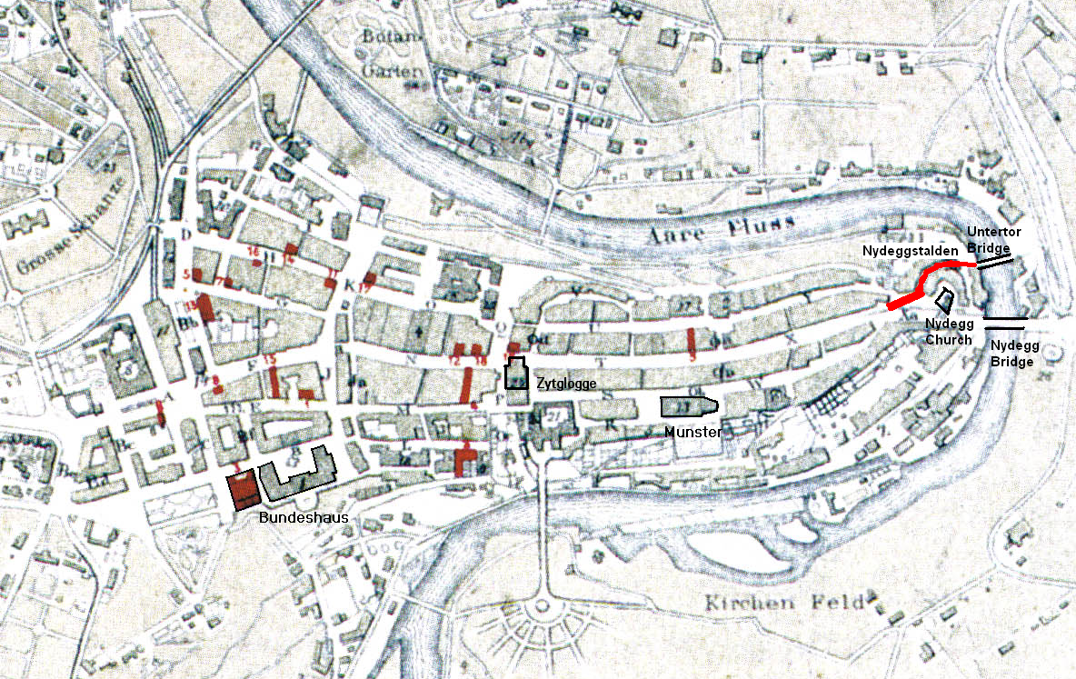 City plan of Bern, 1882. Scanned from BERN: Eine Stadt vor 100 Jahren, Bilder und Berichte; Peter Lauenberger, Emil Erne; München 1997; p. 7. Originally from Bern und seine Umgebungen, C.H. Mann, 1882 in the Alpines Museum of Bern. Due to the age of the image, it must be assumed that the author has been dead for more than 70 years. Copyright protection has therefore lapsed under Swiss copyright law (Art. 29 par. 3 URG).